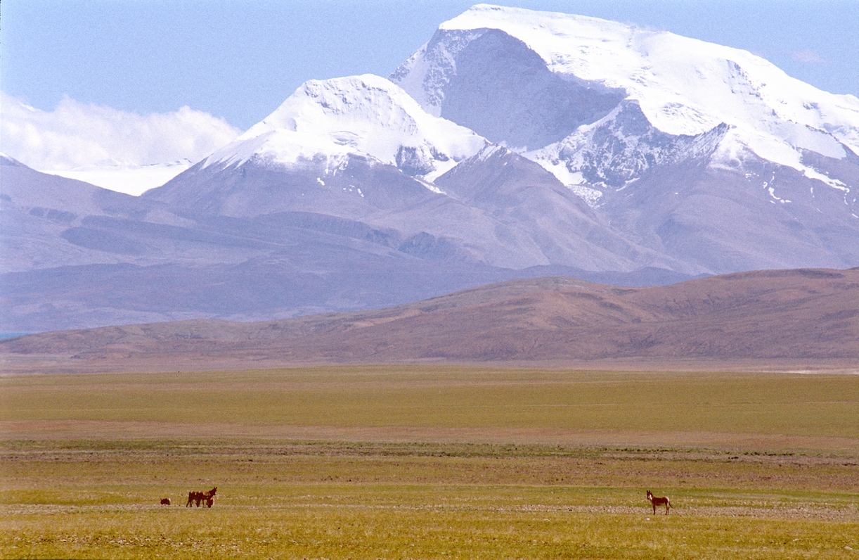 Mt Gurla Mandhata (7694 m) in the distance (about 60 km)